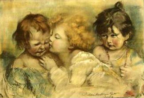 1905 print after page of Women painters of the world, from the time of Caterina Vigri, 1413-1463, to Rosa Bonheur and the present day, by Walter Shaw Sparrow, The Art and Life Library, Hodder & Stoughton, 27 Paternoster Row, London